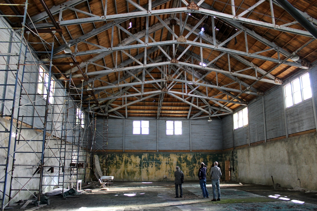 This indoor tennis house in Rye, New York is believed to be the 3rd oldest covered court of its kind in the United States. It dates back to 1917 but may have been constructed earlier.